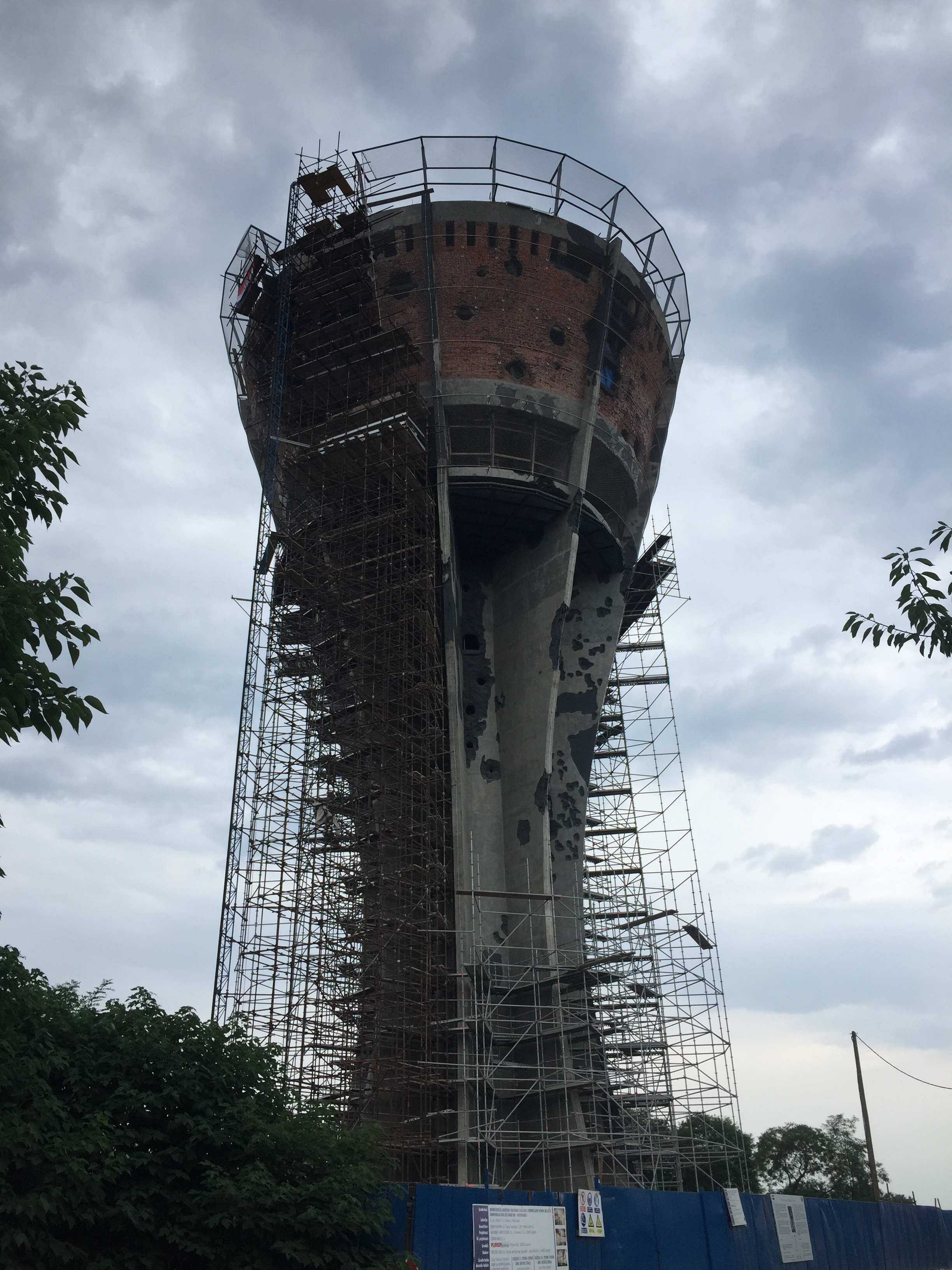 Water tower of Vukovar during its reconstruction, July 2019